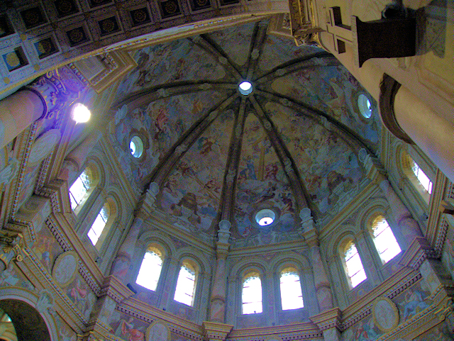 Dome of the shrine of Santa Maria della Croce, Crema, province of Cremona, Italy